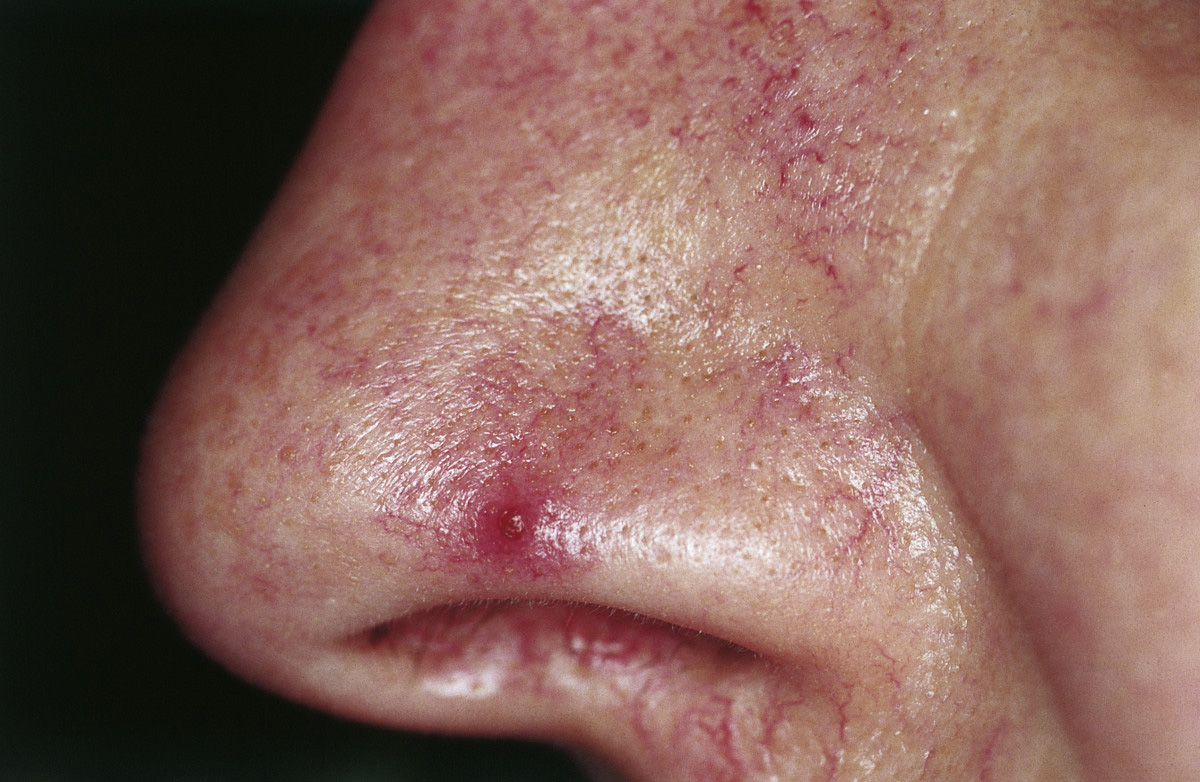 Nevus araneus (spider nevus). In the center of the red lesion a small (1 mm) red papule is visible, surrounded by several distinct radiating vessels. Pressure on the lesion causes it to disappear. Blanching is replaced by rapid refill from the central arteriole when pressure is released.